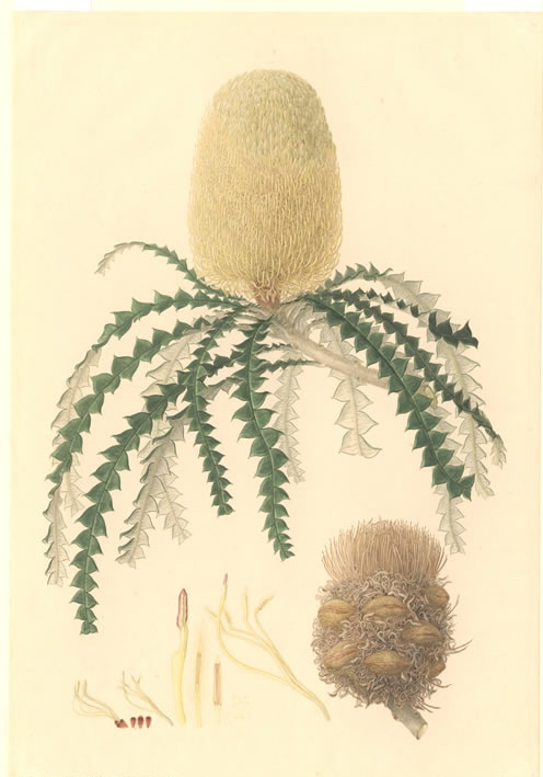 A illustration by Bauer of Banksia speciosa c.1811. Watercolour on paper, 524 x 356 mm. Painted from the sketches he made onboard the Investigator, in the company of the botanist Robert Brown